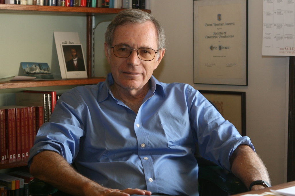 Columbia University professor Eric Foner photographed in his office at the university in New York City on 15 September 2009 for Wikipedia.